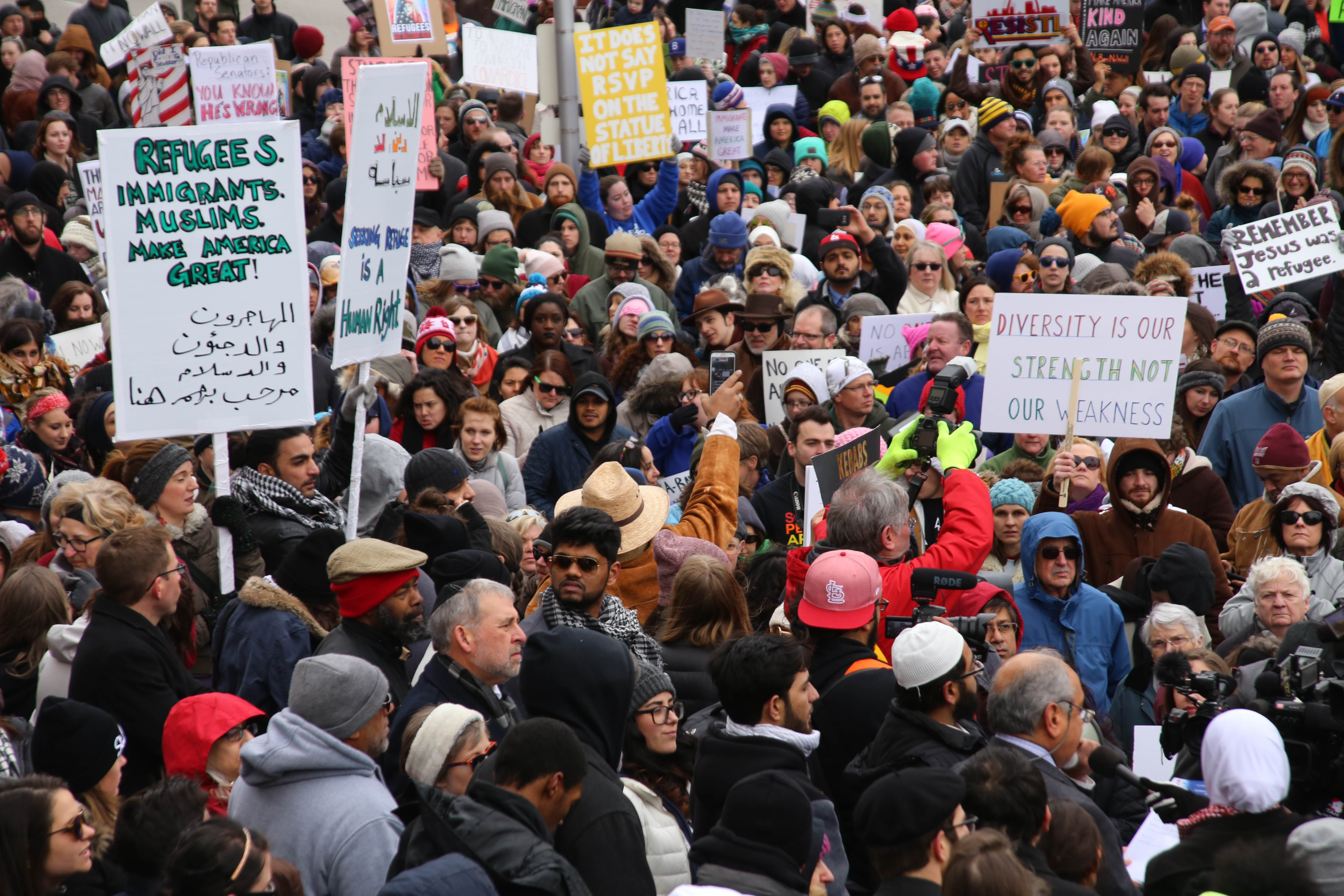 St. Louis Immigration Rally 2/4/2017